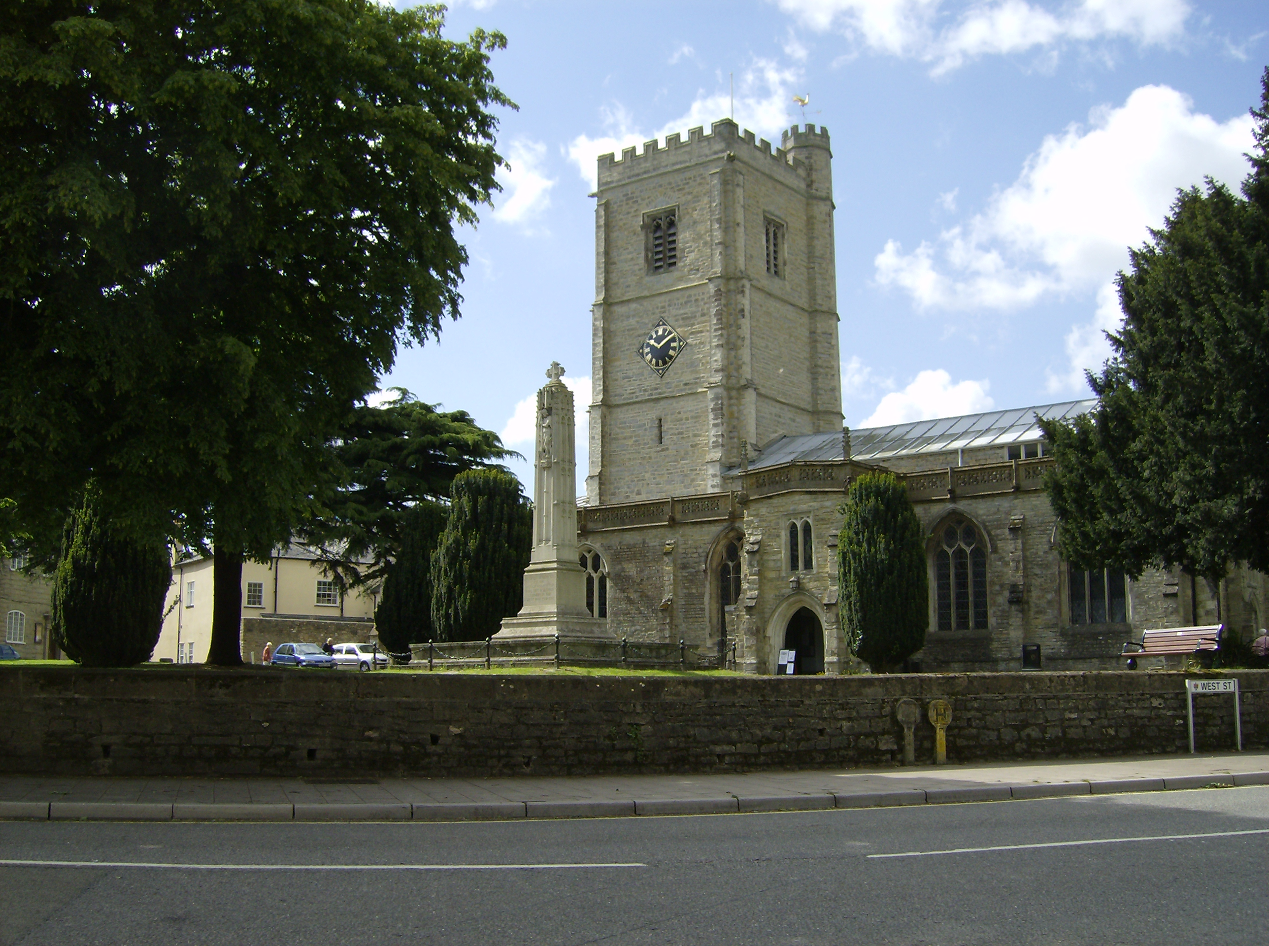 St Mary's parish church, Axminister, Devon, seen from the north.In front of the church is the First World War memorial.